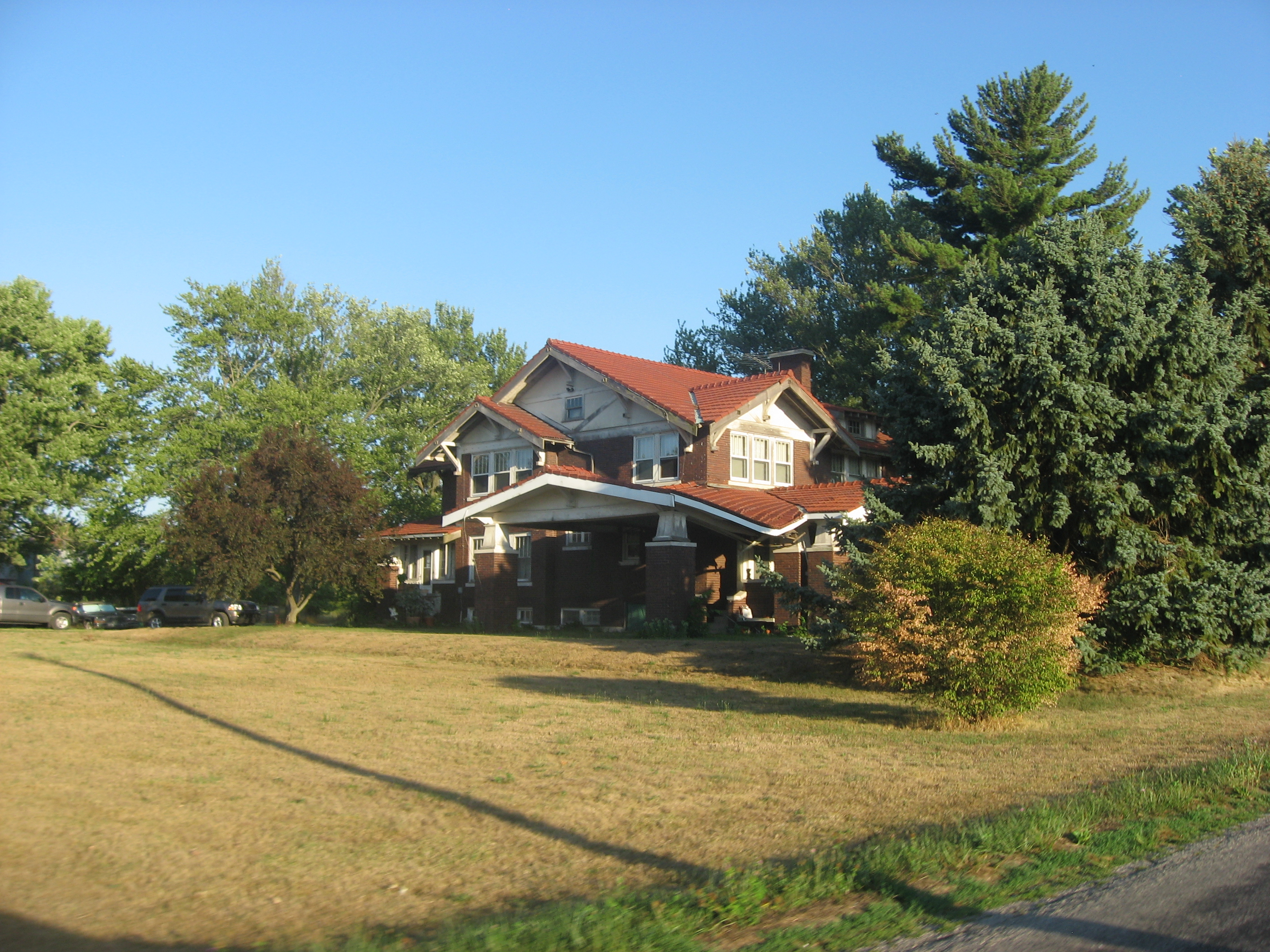 Northern side and front of the Maurice W. Manche Farmhouse, located at 8756 N900W west of Carthage in Ripley Township, Rush County, Indiana, United States. Built in 1919, it is the core of the farmstead, which composes a historic district that is listed on the National Register of Historic Places.